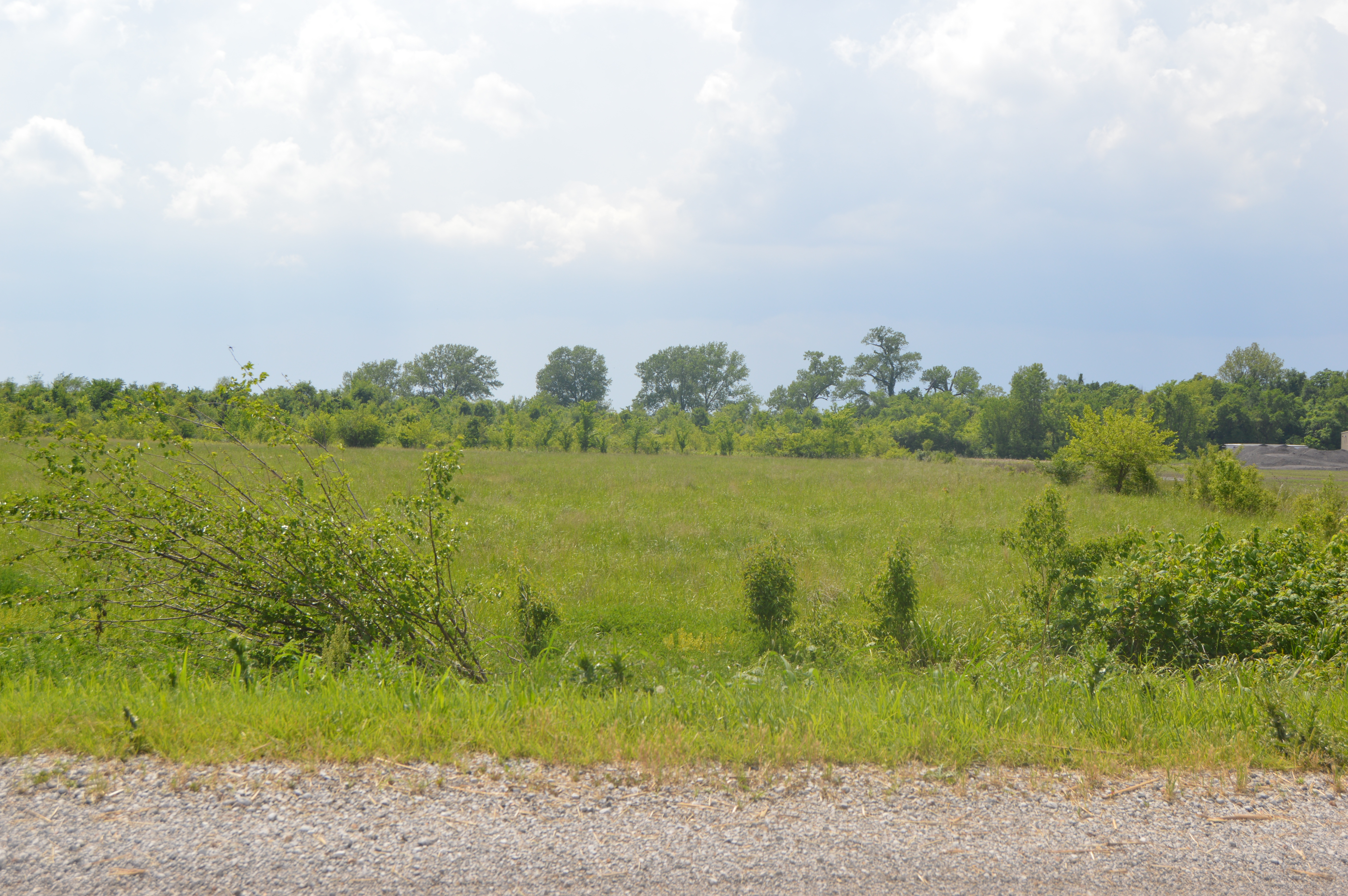 Overview of the village portion of the western section of the Horseshoe Lake Mound and Village Site, a Mississippian archaeological site located off the western side of Illinois Route 111 between Granite City and Collinsville in Nameoki Township, Madison County, Illinois, United States. The site is listed on the National Register of Historic Places.